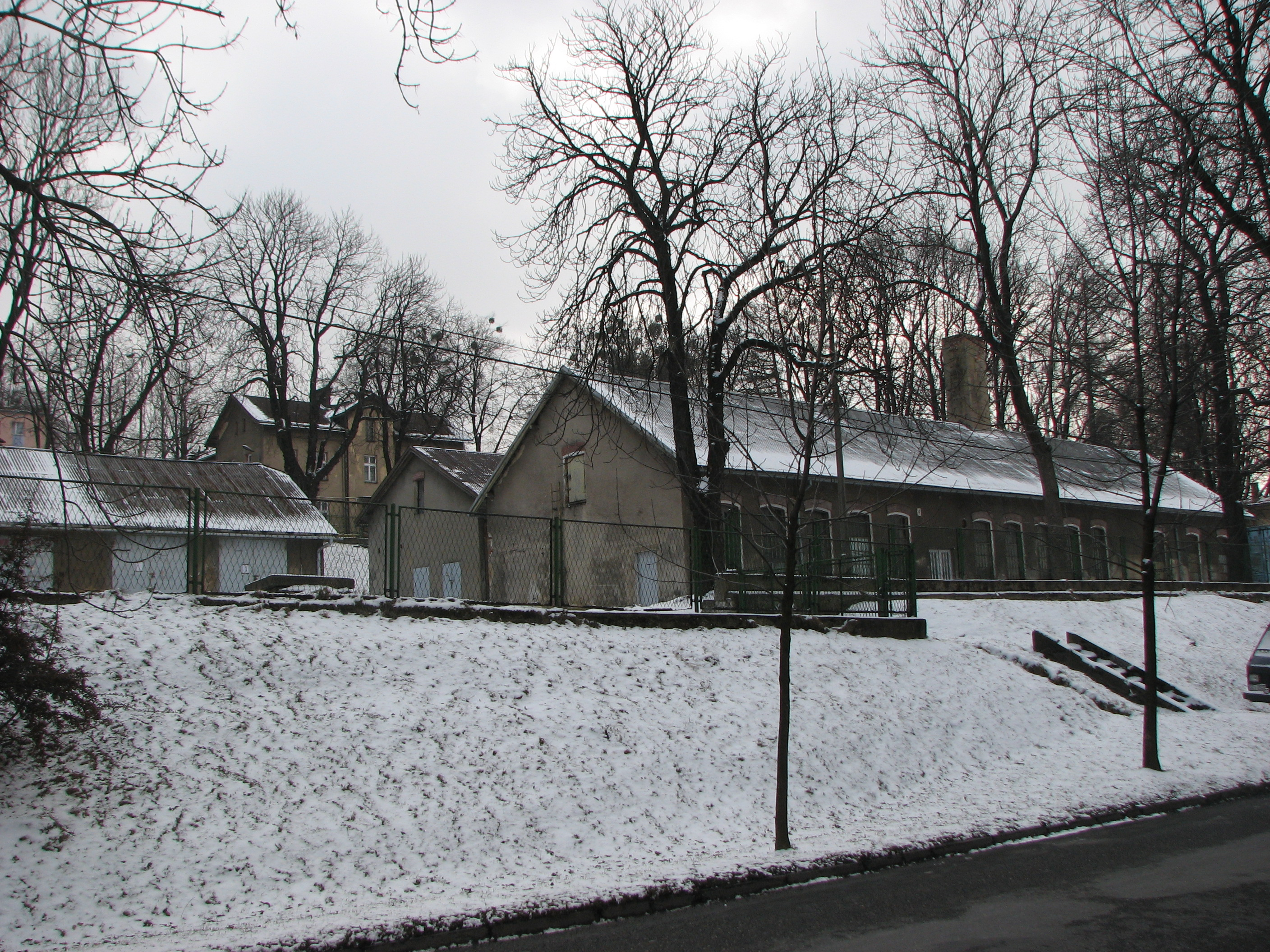 Former barracks in Cieszyn, Blogocka Street